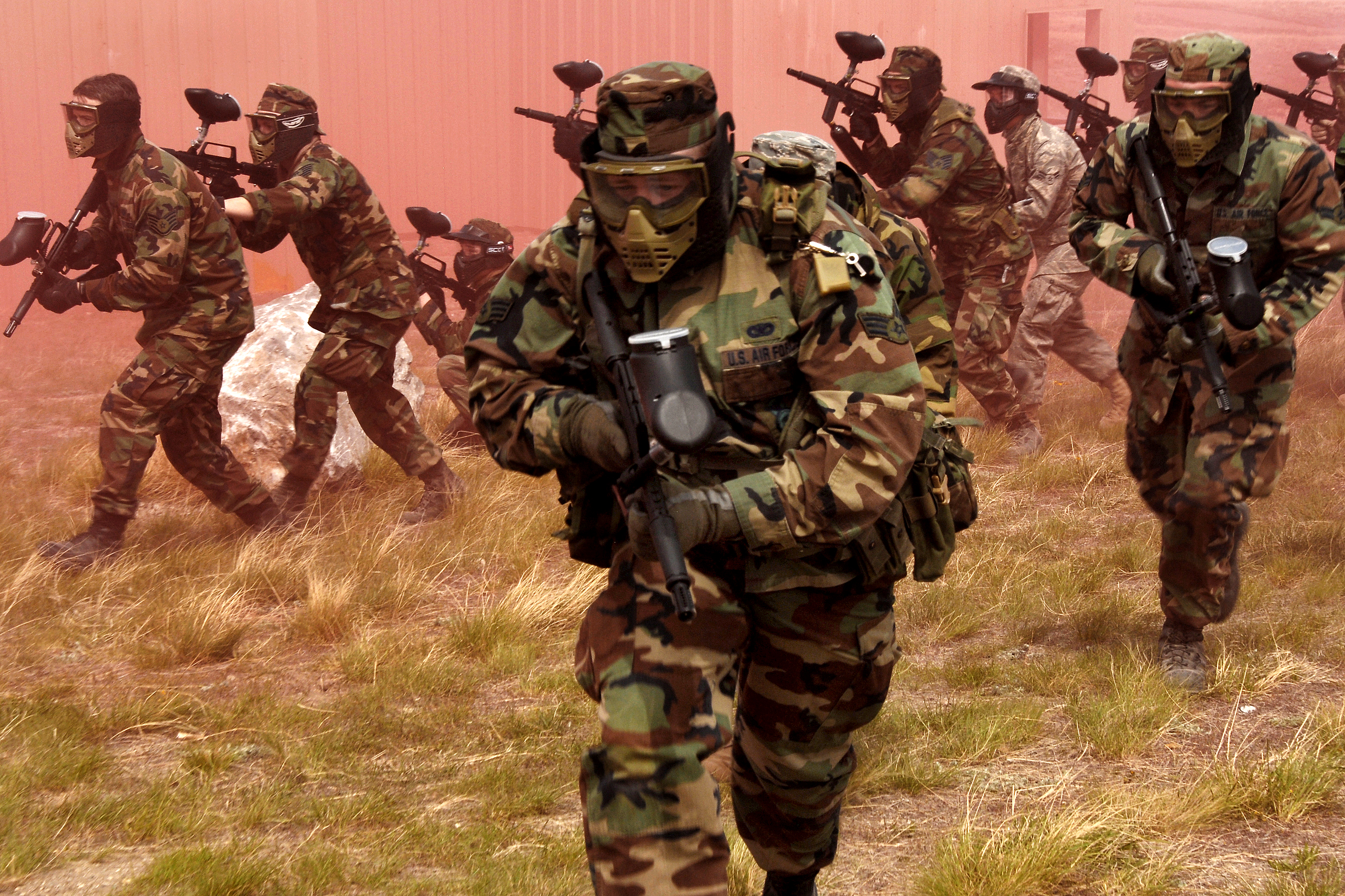 U.S. Air Force airmen use paintball equipment to simulate live fire during military operations and urban terrain training for Operation Northern Thunder on Fort Harrison, Mont., May 16, 2009. The airmen, assigned to the 185th Air Refueling Wing's security forces, are based in Sioux City, Iowa